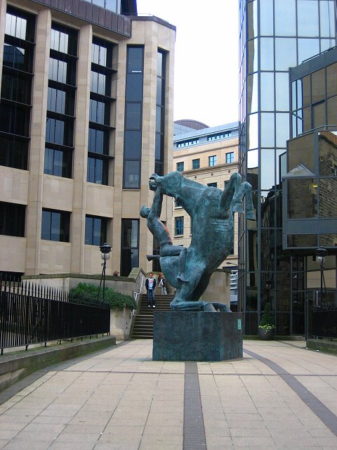 Horse and Rider